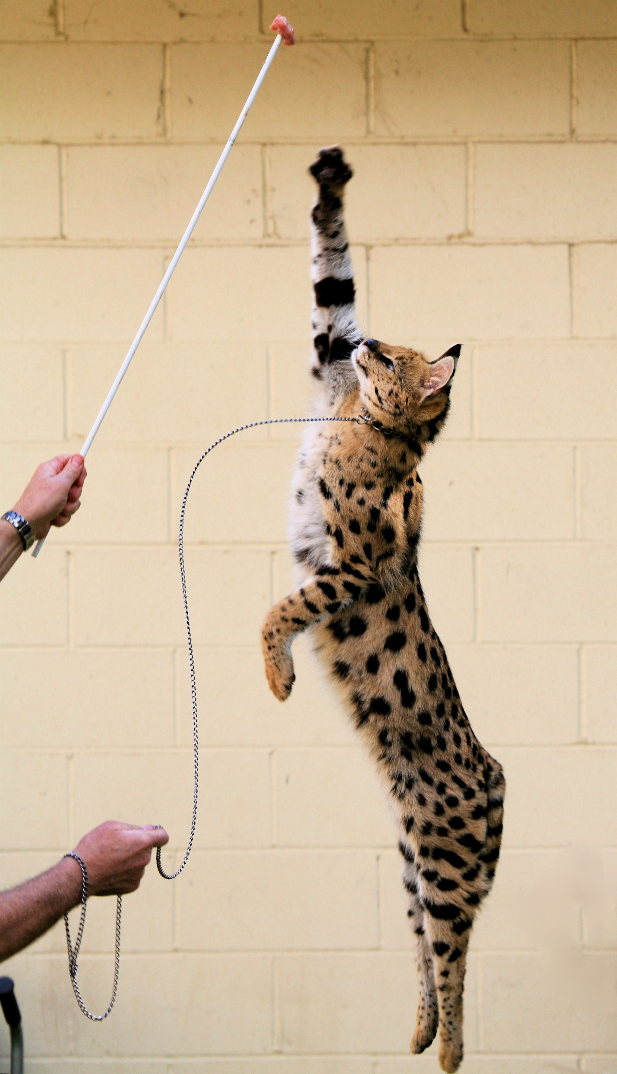 Leptailurus serval demonstrating the 2.5 m vertical jump that he uses to catch birds flying overhead. But he is even better at catching mice. The average serval eats 4,000 mice per year.